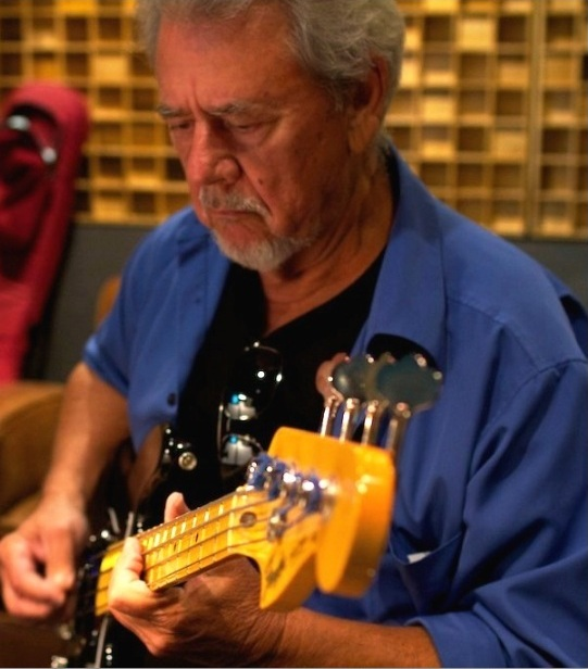 Joe Osborn